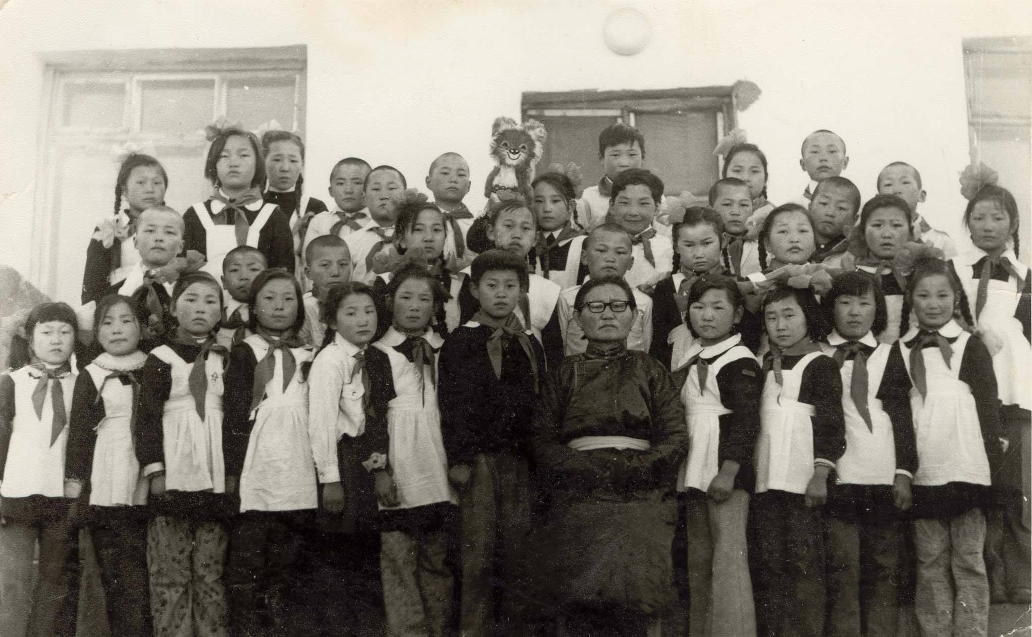 Ангийн хамт олон